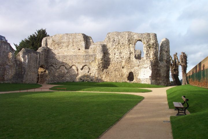 The ruins of the monks dormitory of Reading Abbey, in the English town of Reading. For more information, see Wikipedia article Reading Abbey.